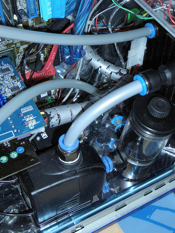 A pump used in a watercoold PC